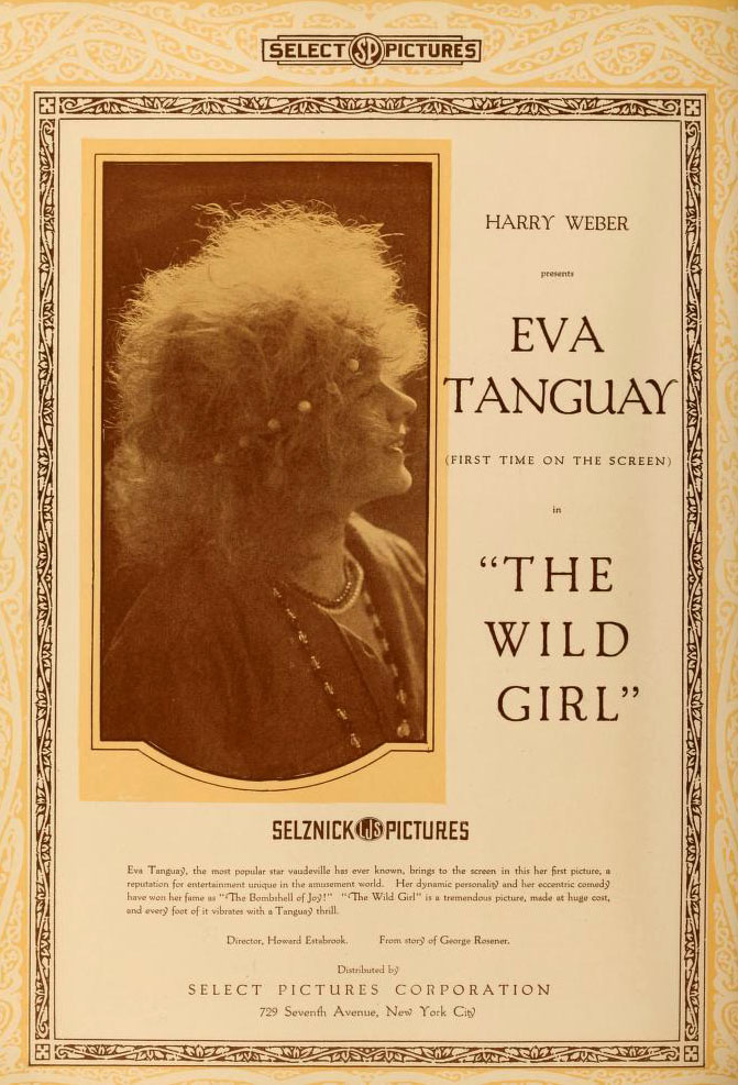 Advertisement in Moving Picture World for the American comedy drama film The Wild Girl (1917) with Eva Tanguay.